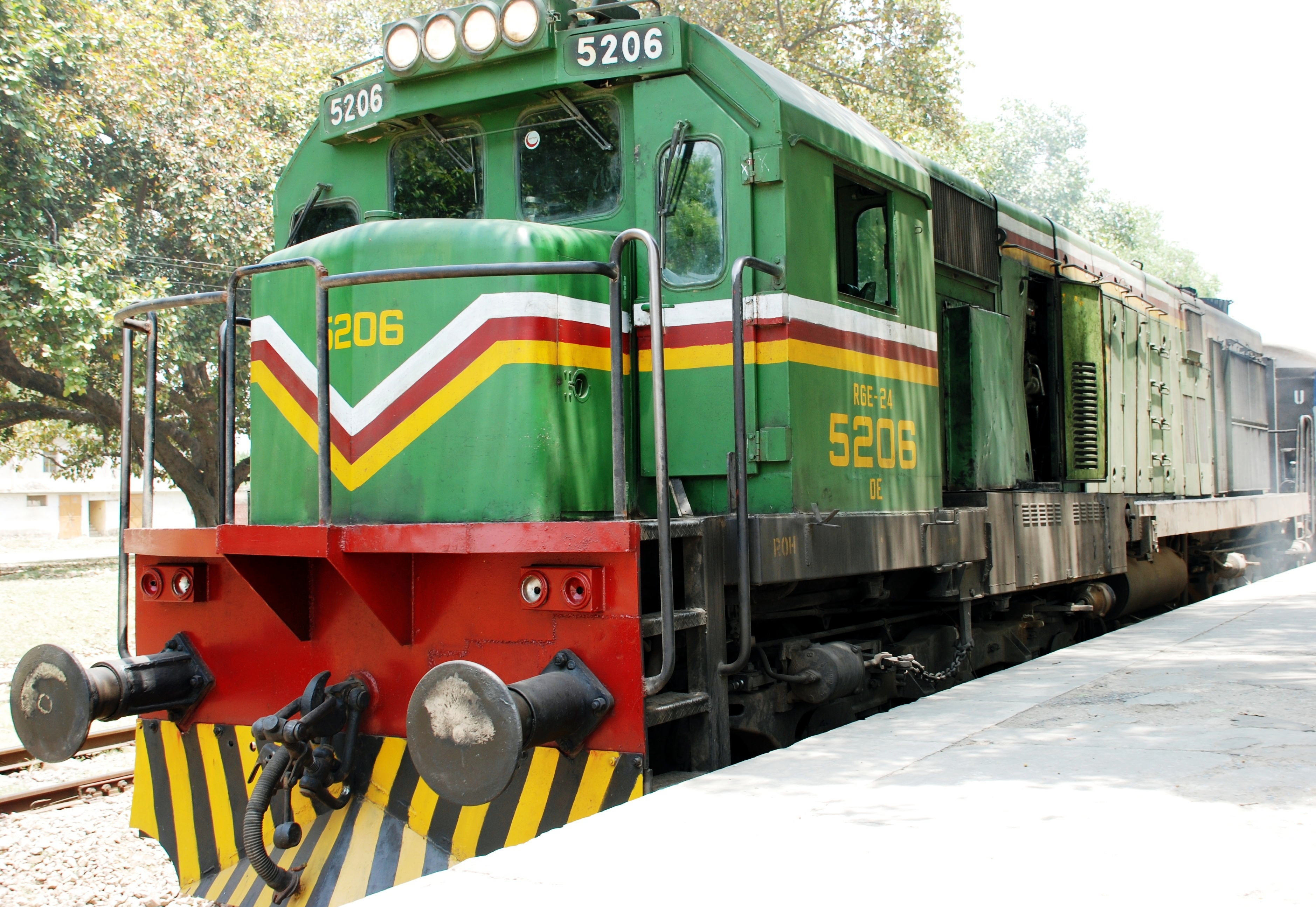 A photo taken by DSLR NIKON D80, at Railway Station Hassan Abdal, Taxila, Rawalpindi